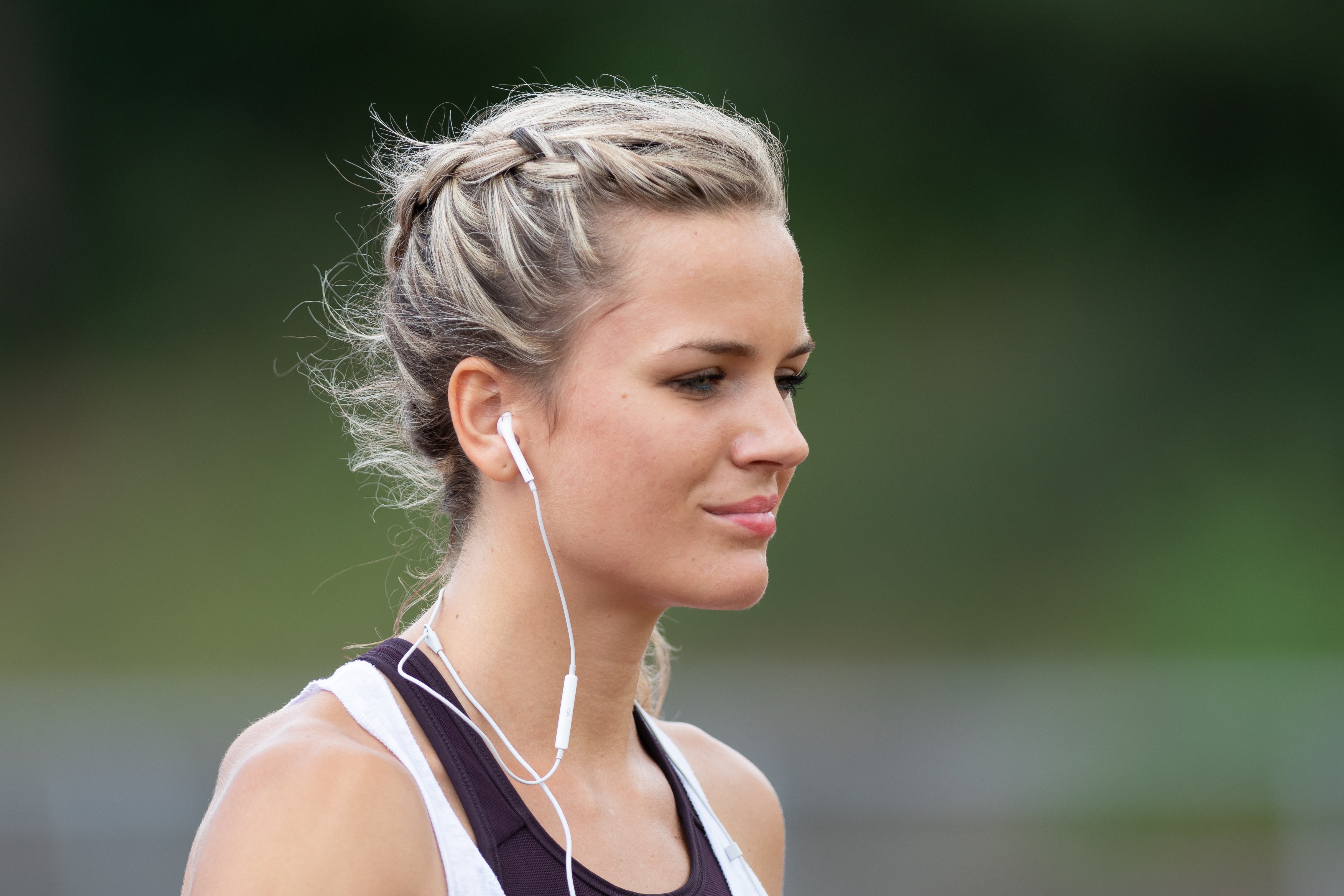 Leichtathletik Gala Linz 2018; women´s 400 m sprint; Seidlová Zdeňka, TJ Dukla Praha